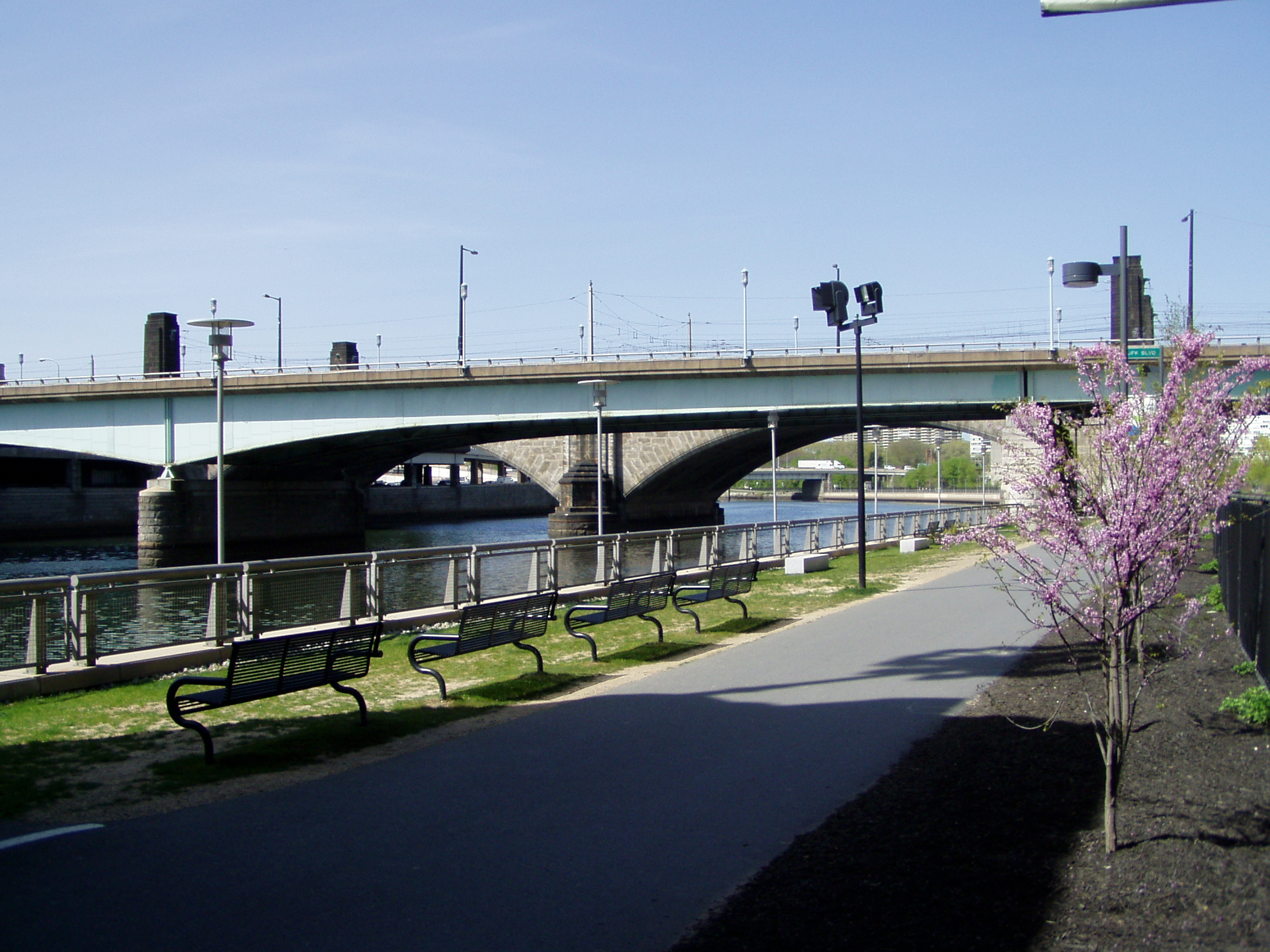 Taken in Philadelphia, Pennsylvania, in April 2006. The Schuylkill River Trail, a multi-use landscape trail built as part of the Schuylkill Banks improvement project, runs along the Schuylkill River. JFK Boulevard bridge, with SEPTA railroad bridge.